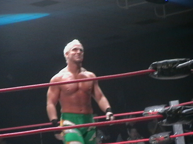 Eric Young at a house show in Dublin, Ireland